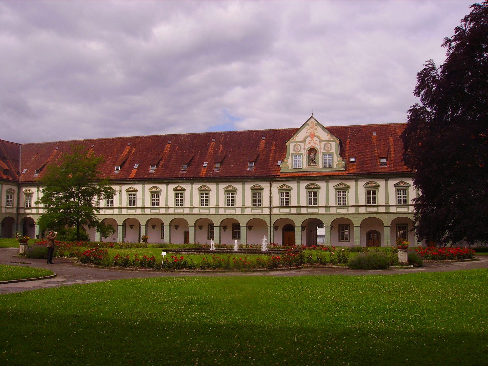 Cloister of Benediktbeuern Monastery, Benediktbeuern